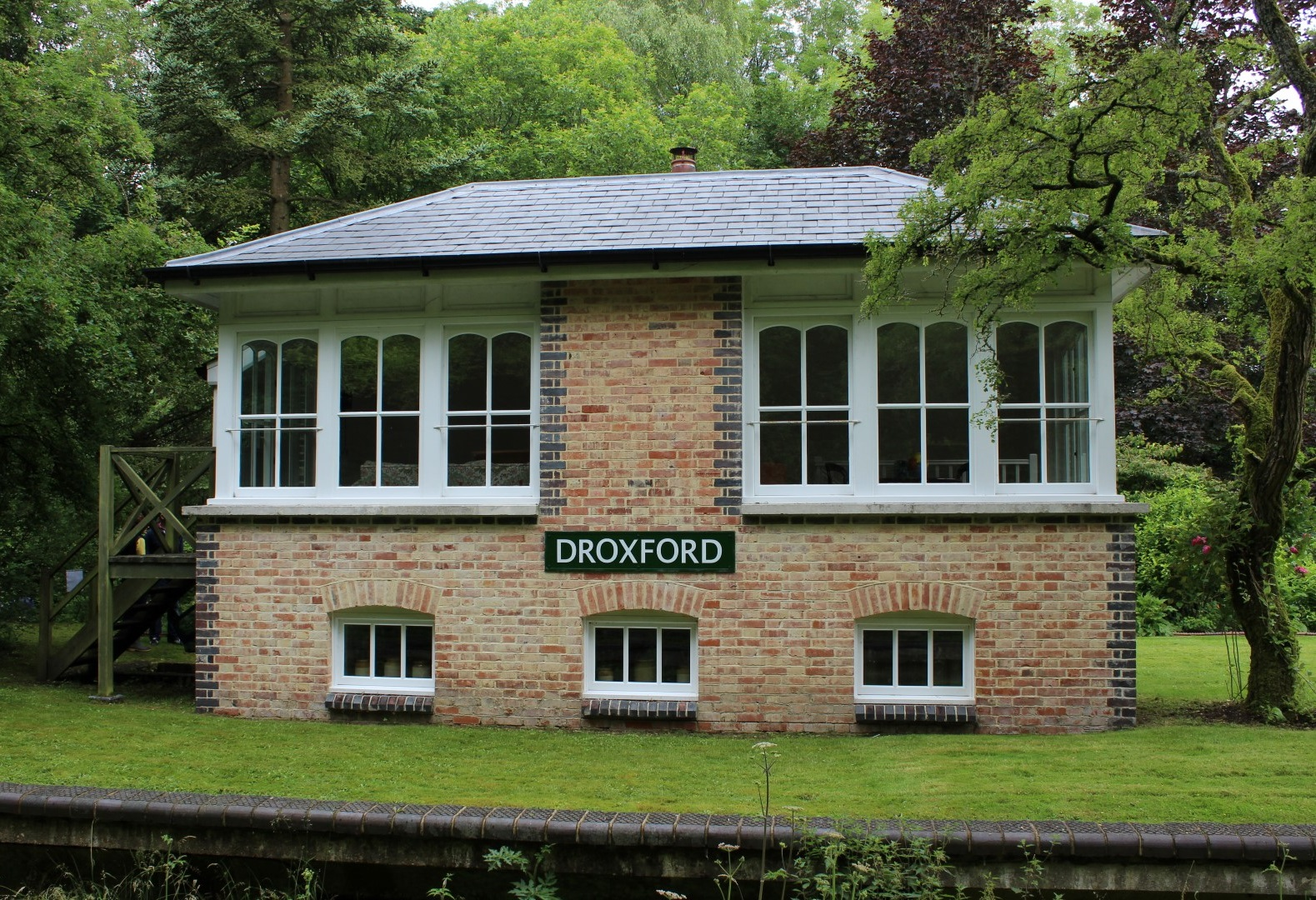 Rebuilt signal box Droxford railway station, Droxford, Hampshire.